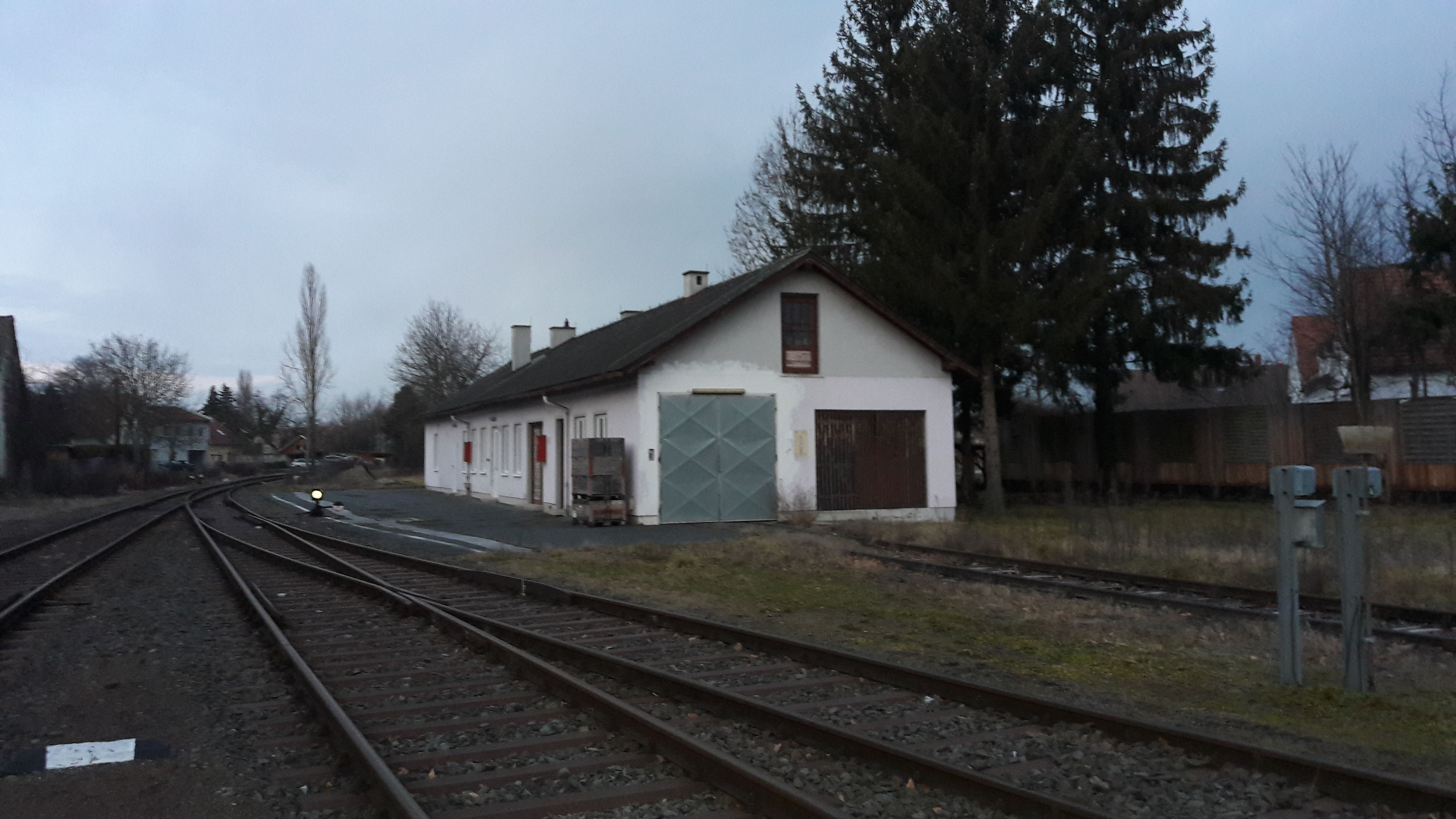 Die Zugförderungsstelle Fürstenfeld, im Vordergrund die Lokwerkstatt.